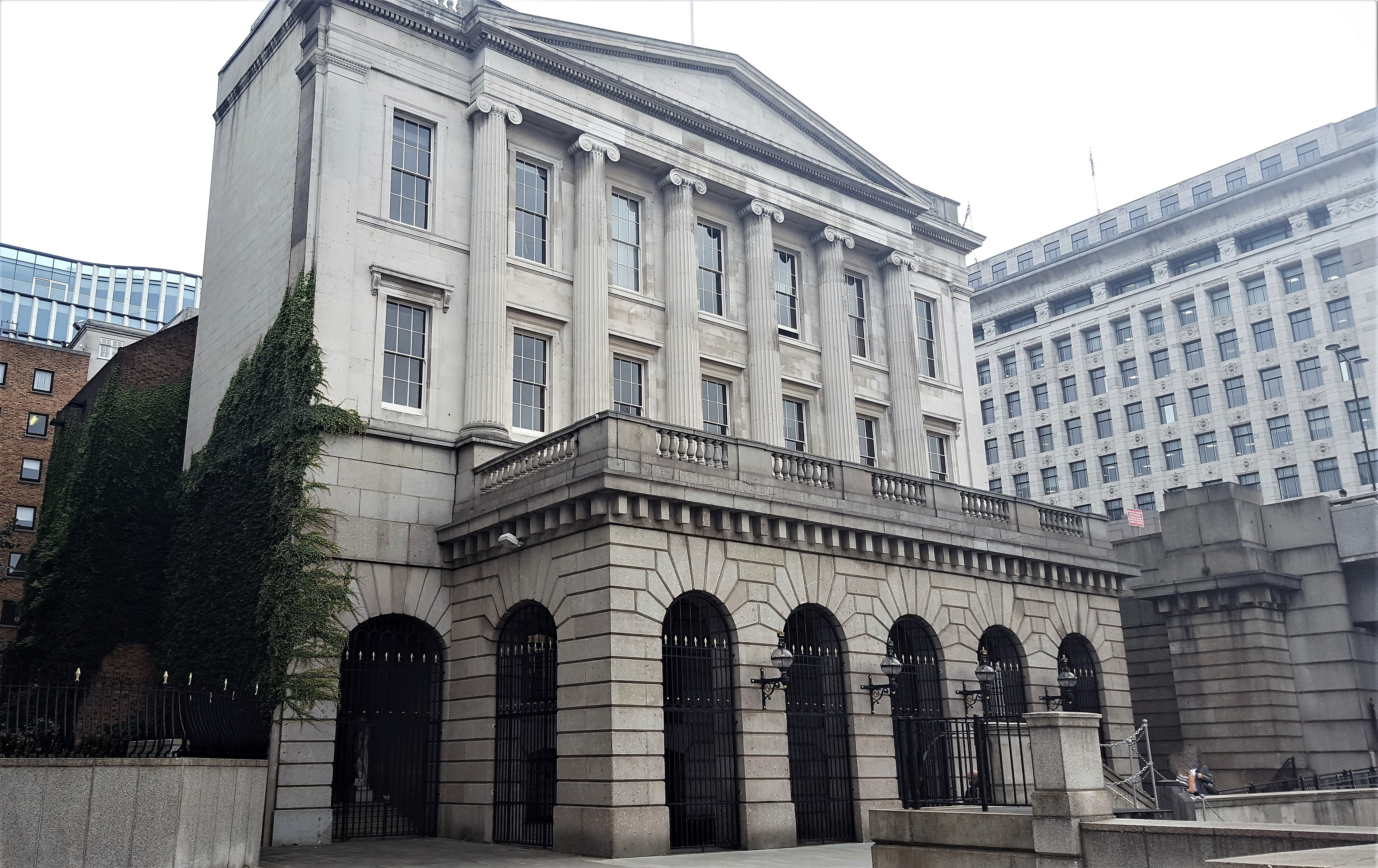 Fishmongers' Hall Wikidata has entry Q17645554 with data related to this item.